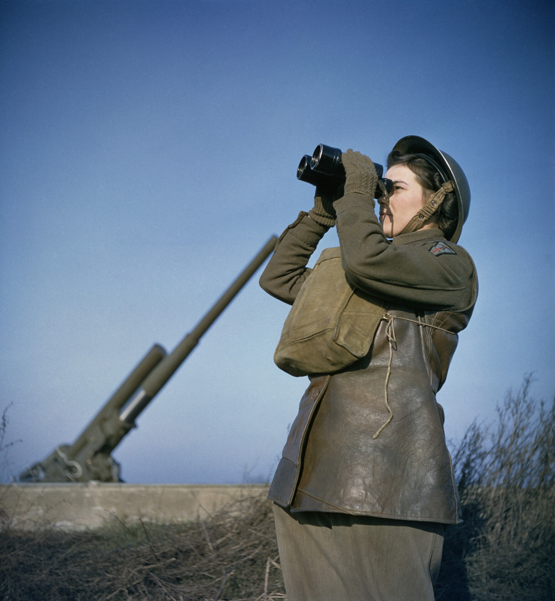 A member of the ATS (Auxiliary Territorial Service) serving with a 3.7-inch anti-aircraft gun battery, December 1942. An ATS spotter with binoculars at the anti-aircraft command post. A 3.7 inch anti-aircraft gun can be seen in the background.